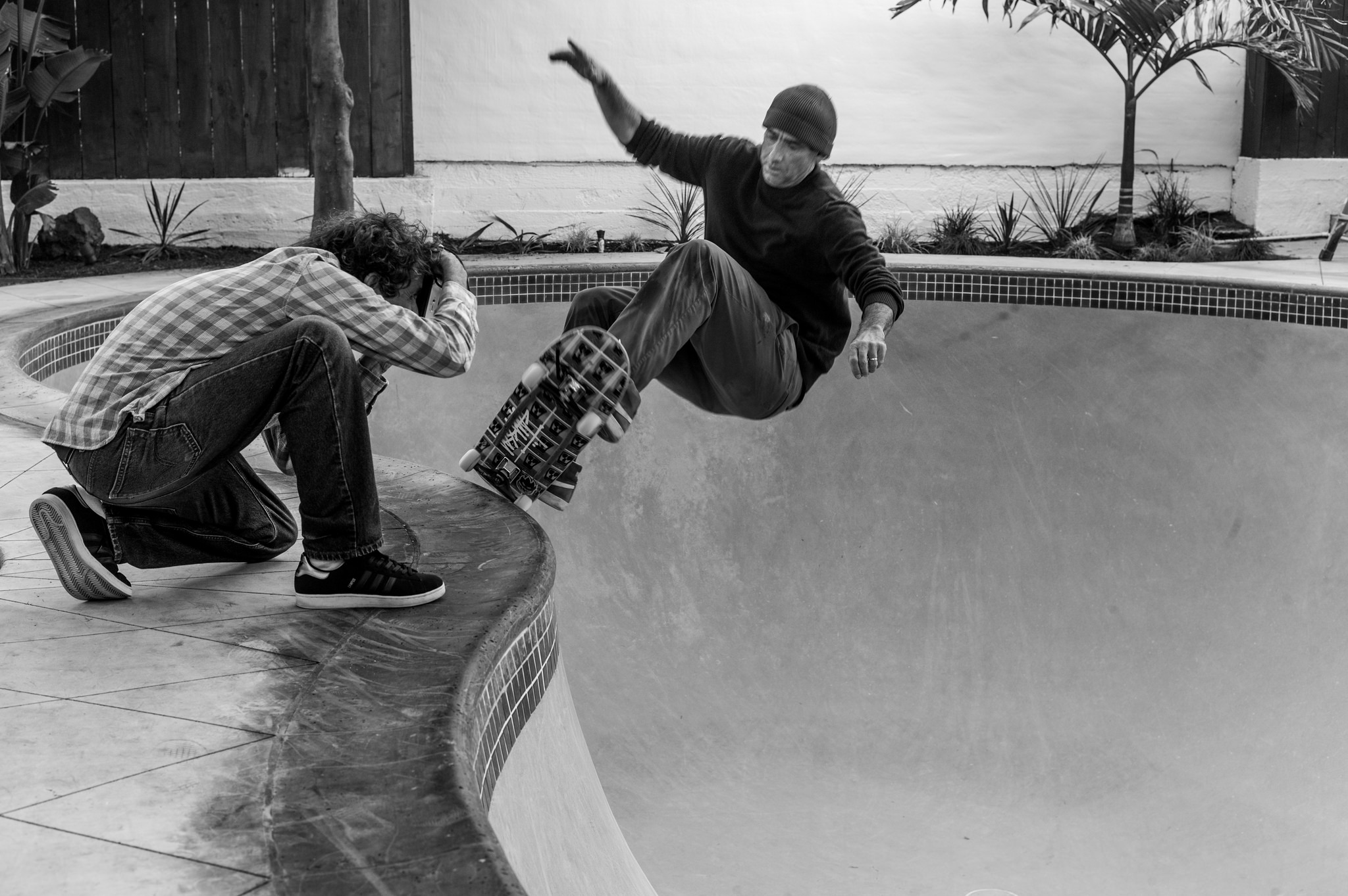 Photo of photographer Glen E. Friedman taking a photo of skateboarder Lance Mountain in a pool in Los Angeles, December 2014